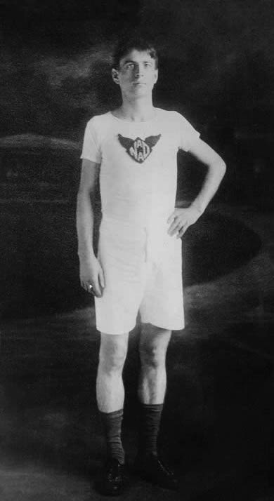 Clarence DeMar, Athlet and medalwinner at the 1924 Olympic Games photography, reproduction, no restrictions on use Copyright: free of charges